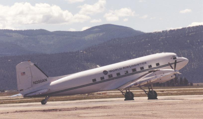 Basler BT-67 (DC-3 turboprop conversion) of World Air Logistics at Missoula, Montana